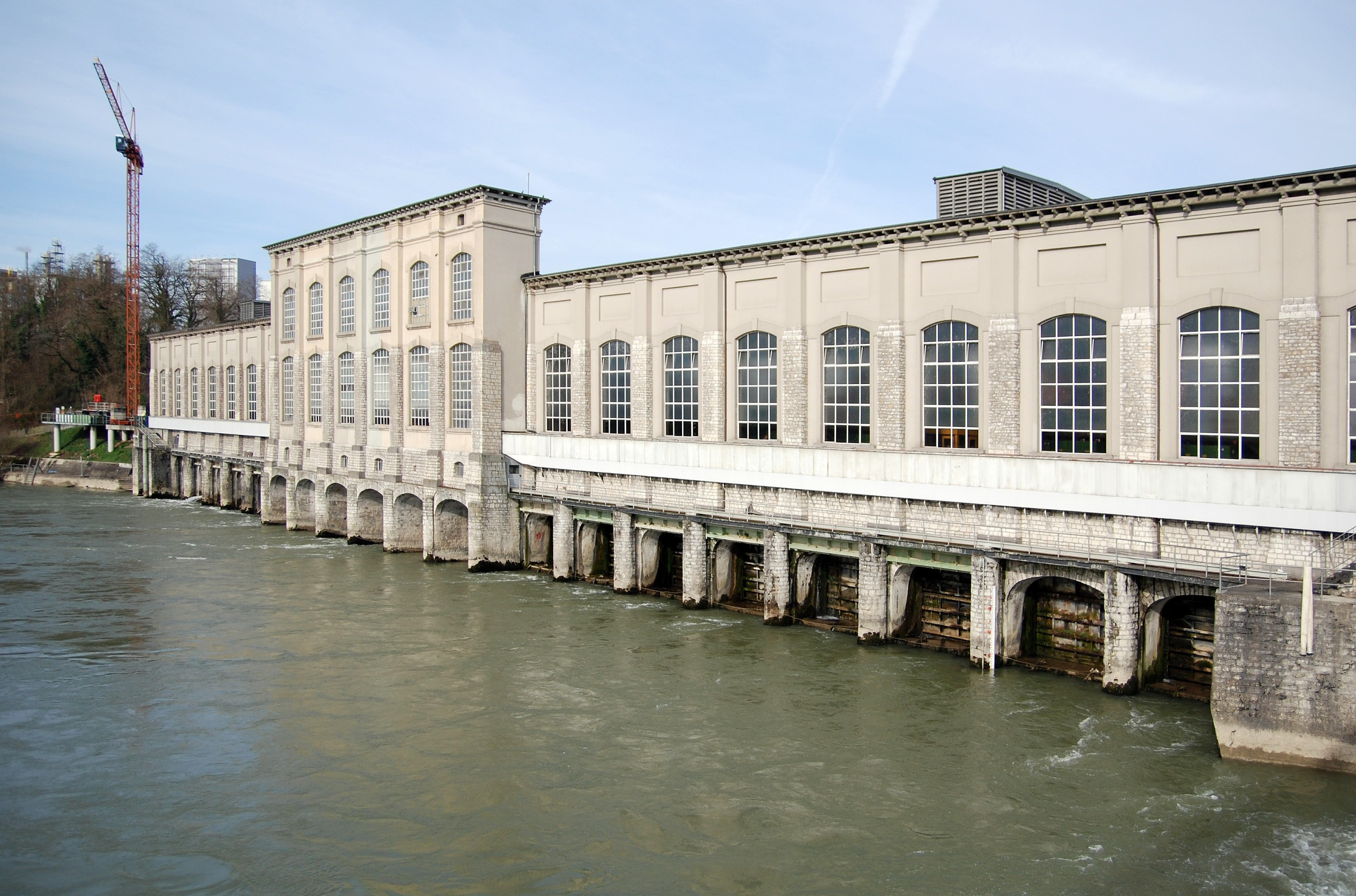 The old hydroelectric power plant in Rheinfelden (no more existing)